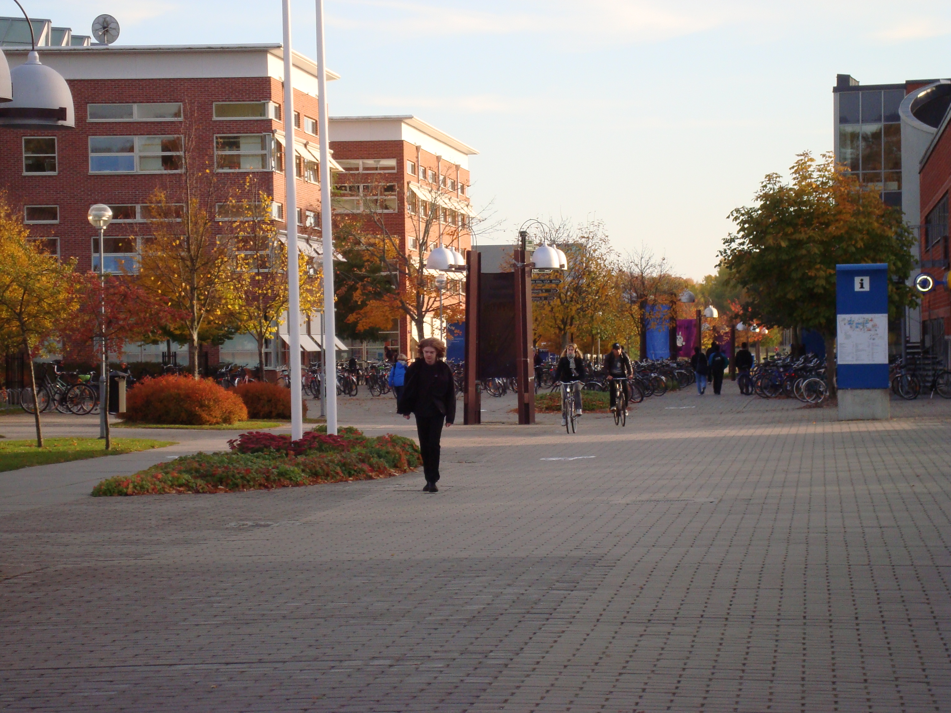 Linköping University Campus